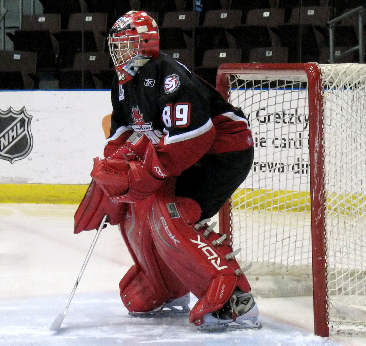 Timo Pielmeier, 2007-2008 St. John's Fog Devils